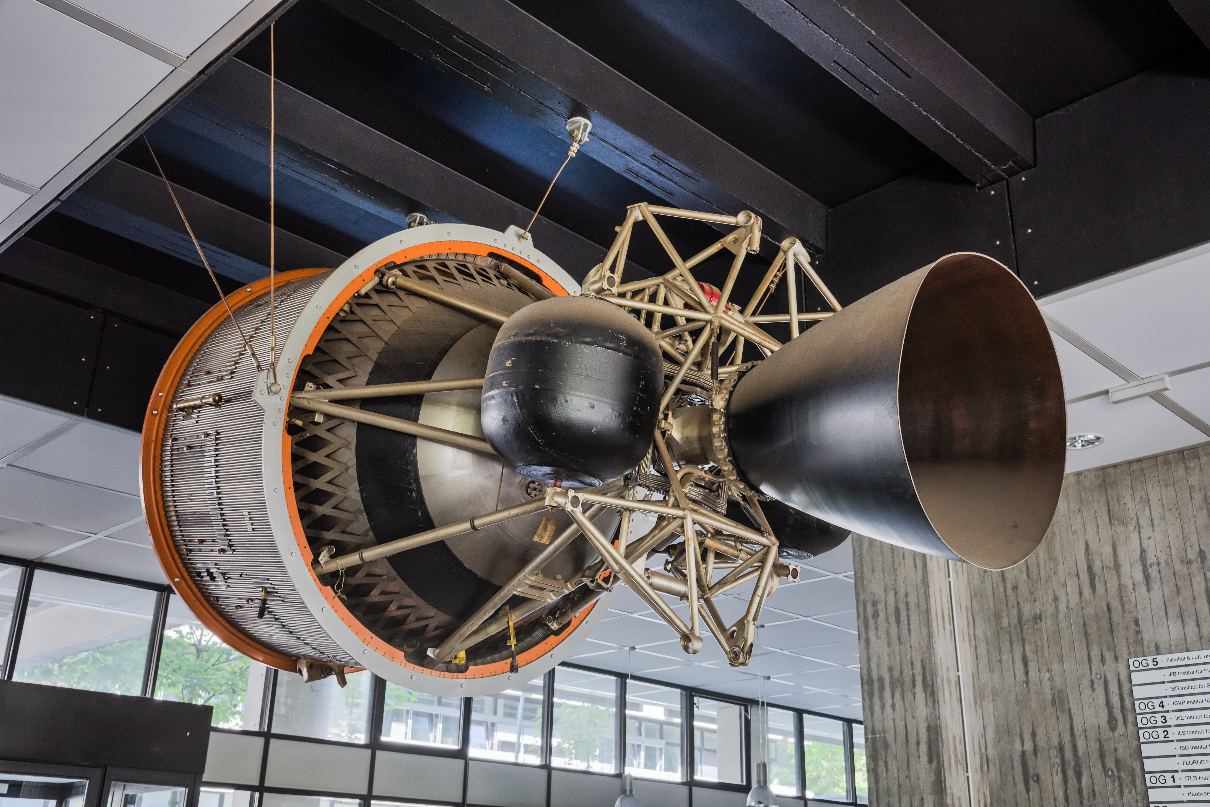 Astris, the third (upper) stage of the Europa I rocket, on display in Pfaffenwaldring 31 (V 31) on the campus of University of Stuttgart in Vaihingen, Stuttgart, Germany. Astris was developed by ERNO and MBB and built by Messerschmitt-Bölkow-Blohm (MBB) and ERNO in Germany.